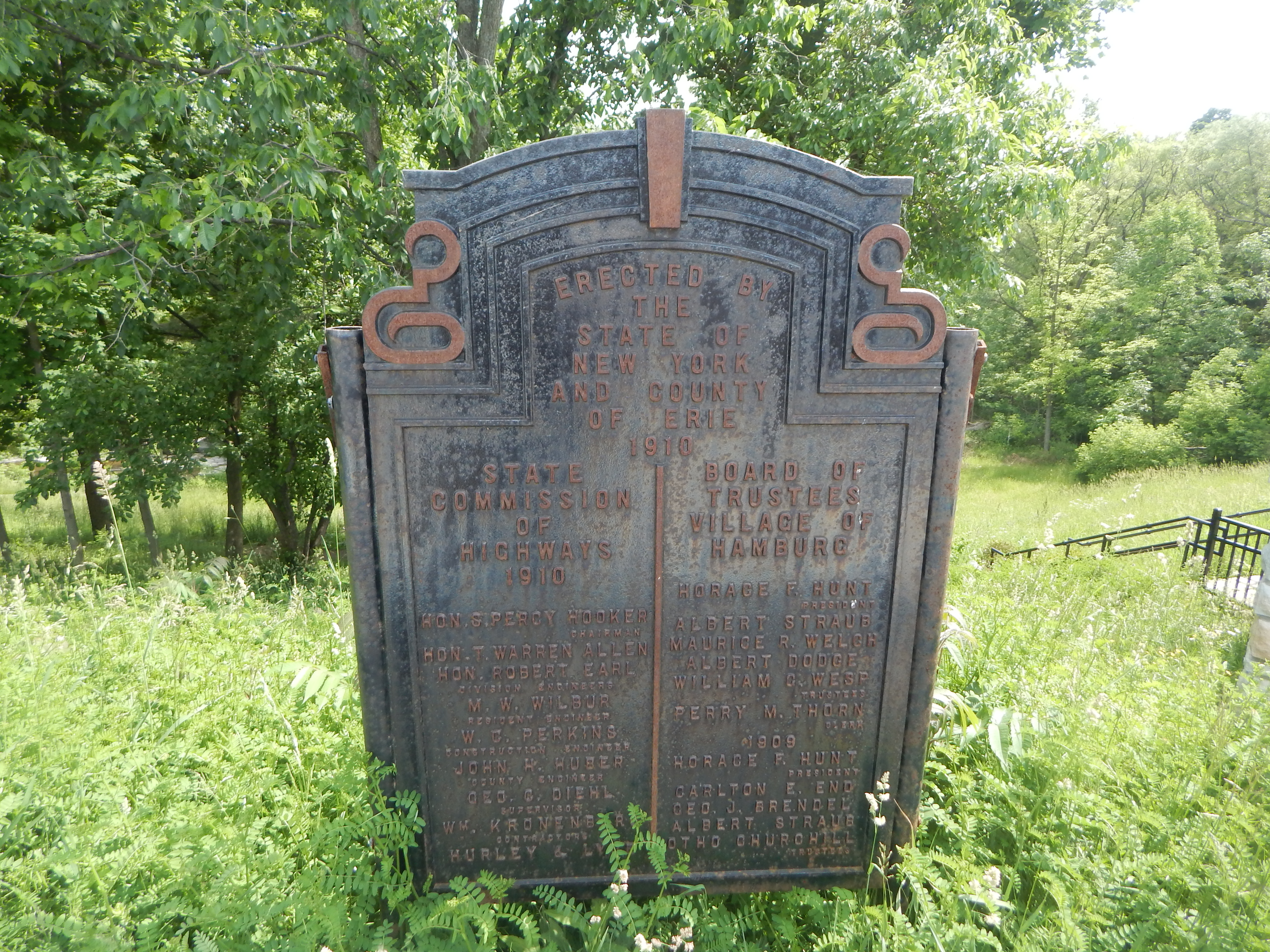 Signage for the construction of New York State Route 391 in Hamburg, New York dating back to 1910.